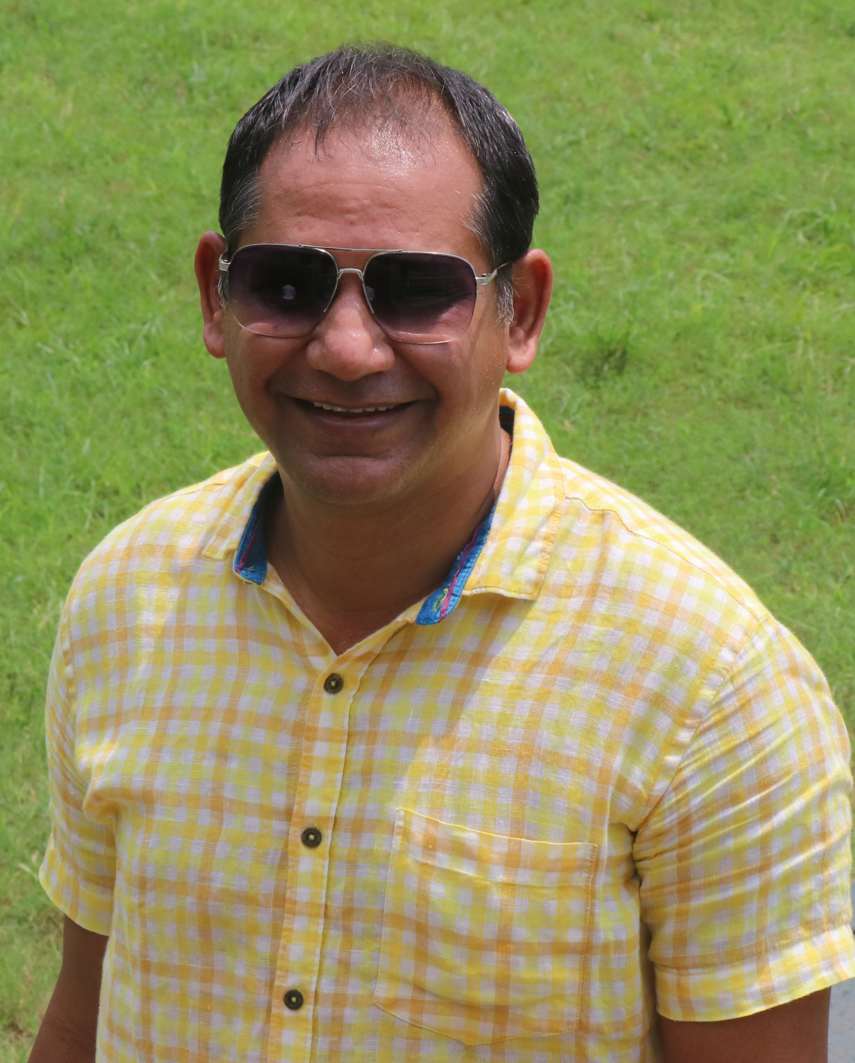 Habibul Bashar, the former captain of Bangladesh National Cricket team